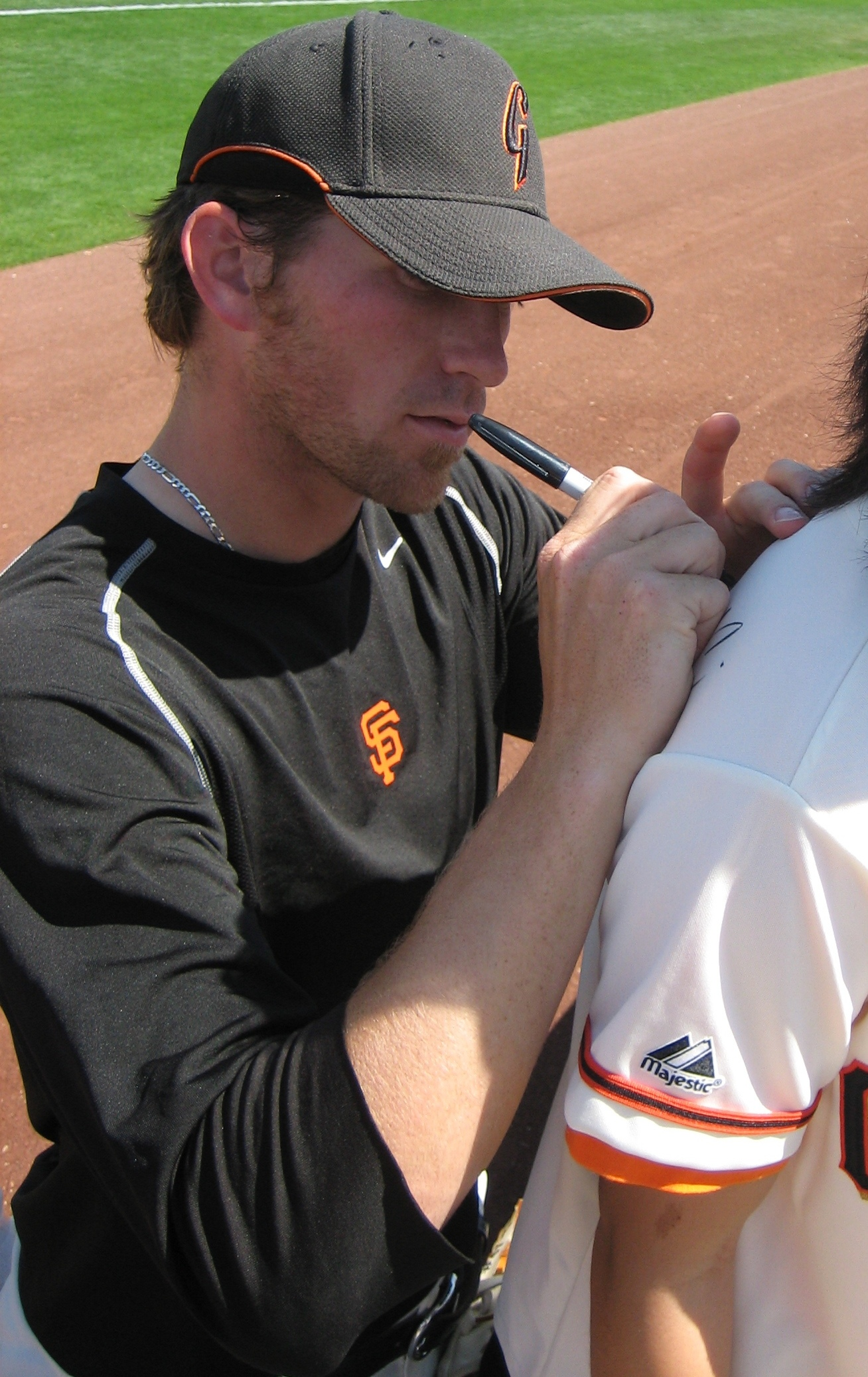 Brad Hennessey singing autographs in arizona for spring training of 2007.